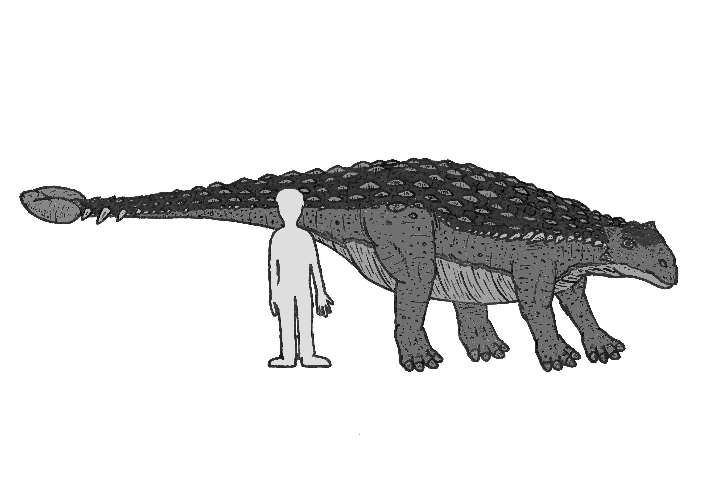 Ankylosaurus ( "Weld lizard" ) Was one of the last armored dinosaurs. It lived in North America 65 million years ago. It's bony tailclub and armor probably protected it from Tyrannosaurus rex.